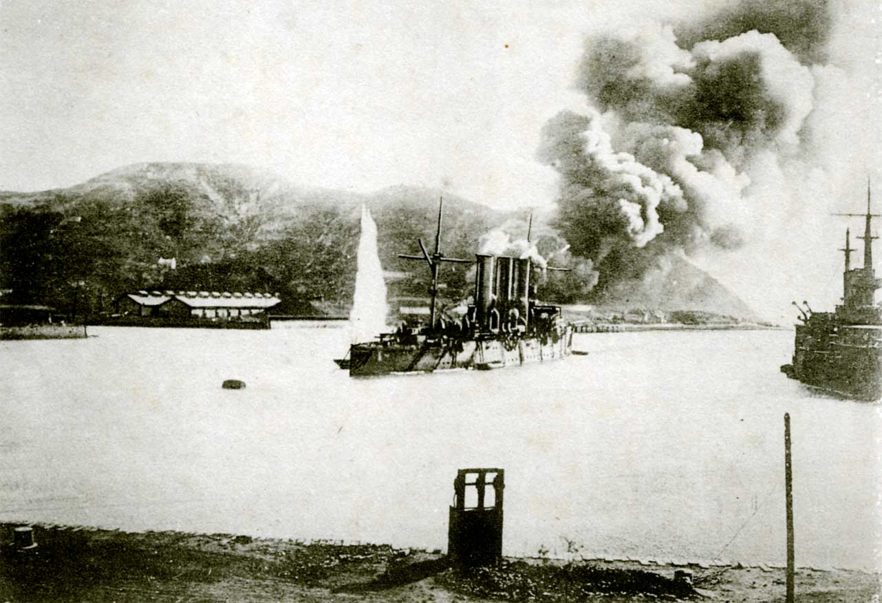 Fire of the Oil Depot Caused by Our Gunfire. Pallada cruiser is visible